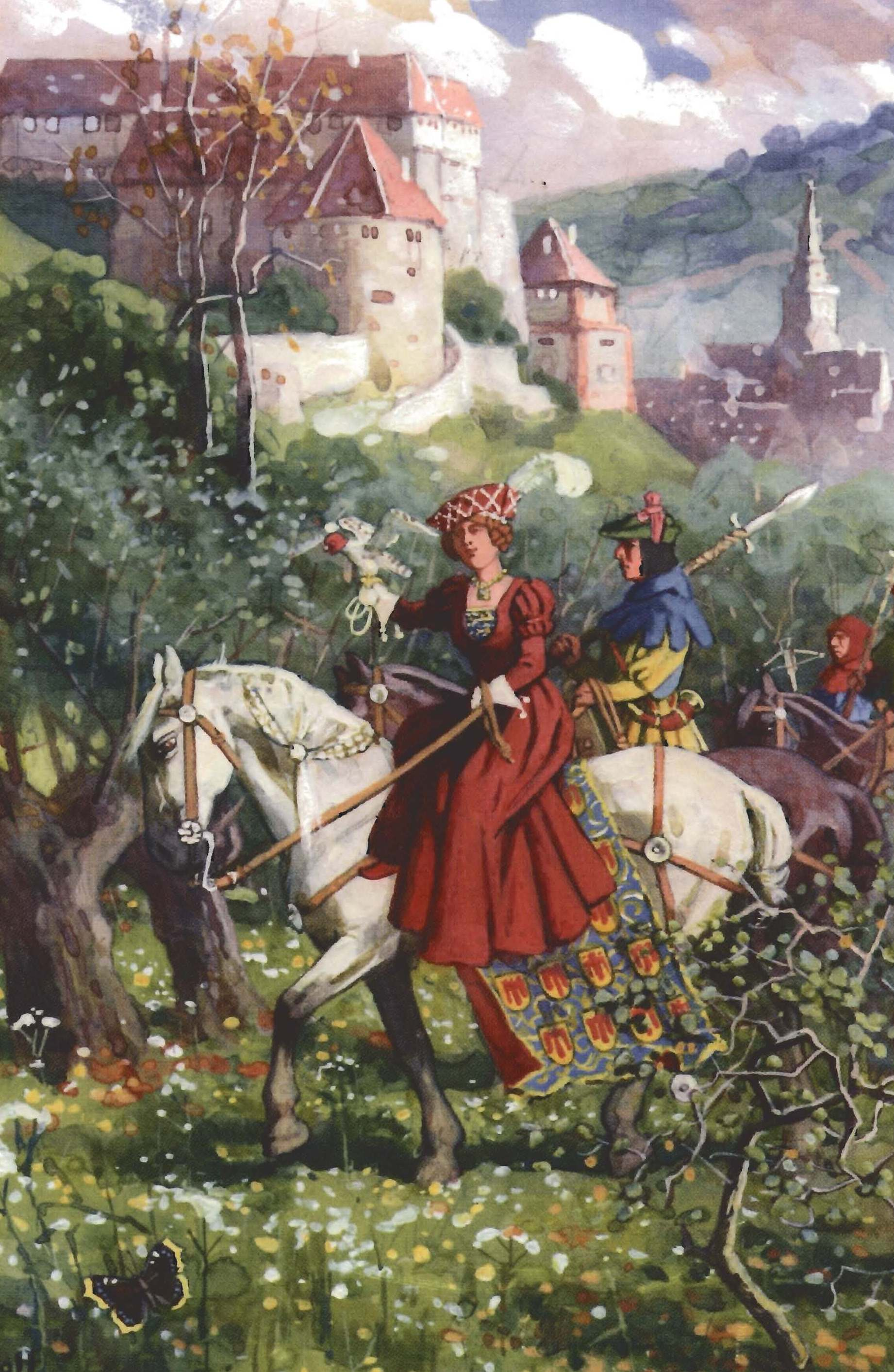 German hawking in the near of Tübingen in the 18. Century.